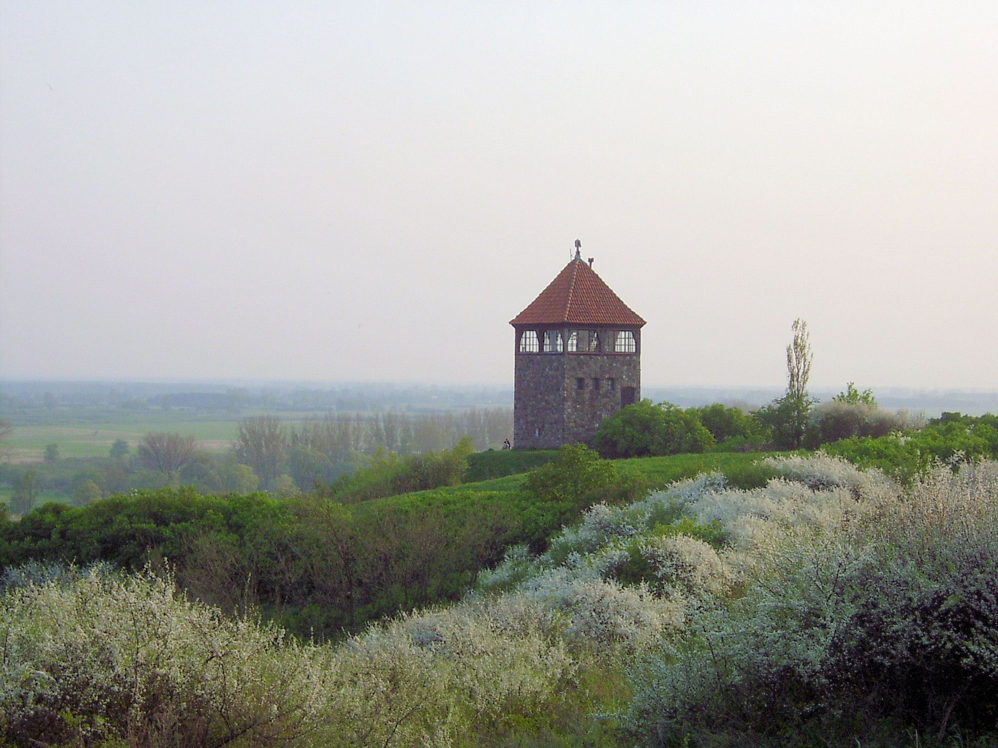 Santok - tower